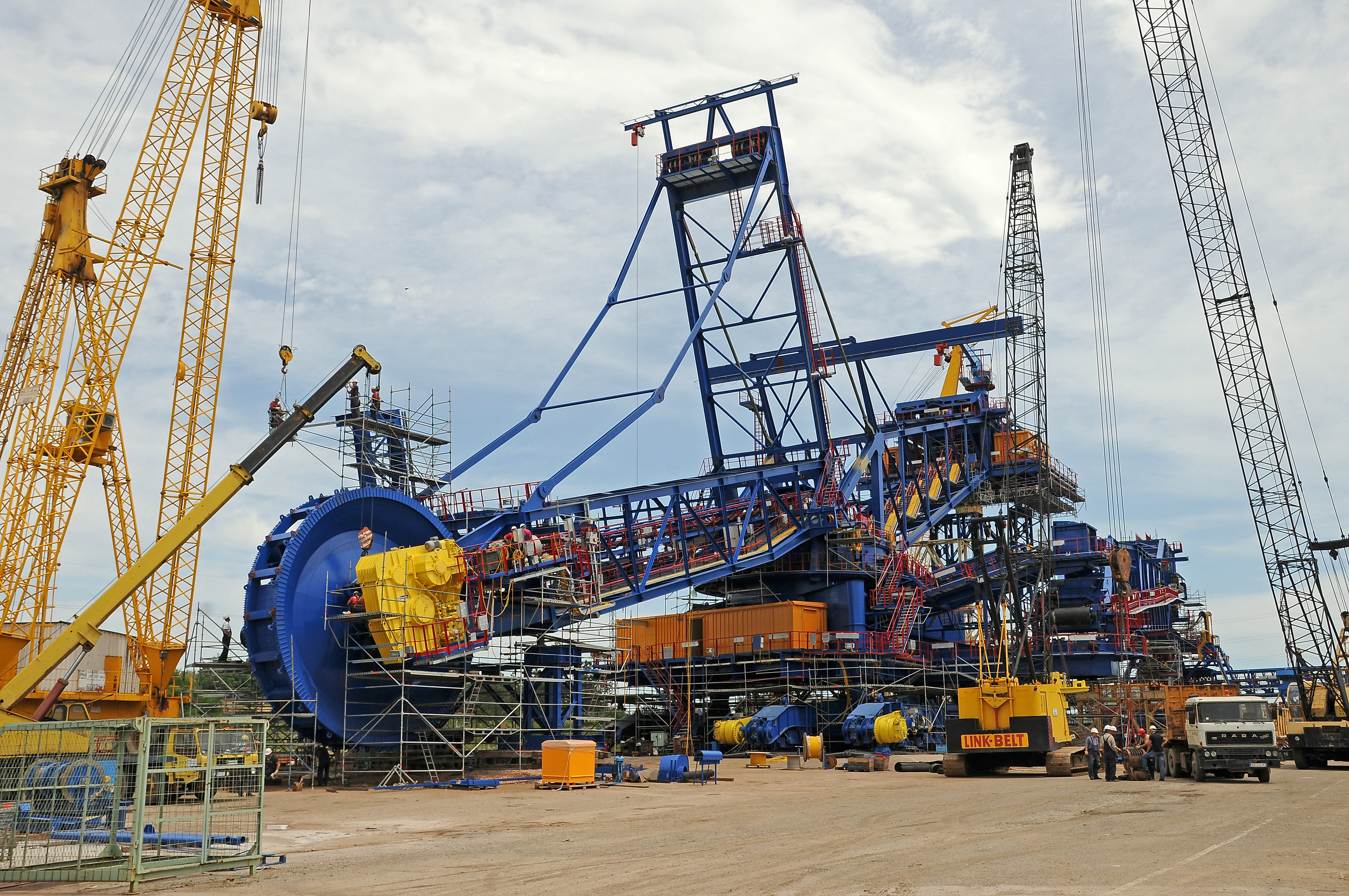 This photo was prepared by Milan Cvijetic i Ivana Milijanović, a student at the Faculty of Mining and Geology, University of Belgrade, for an article on Wikipedia